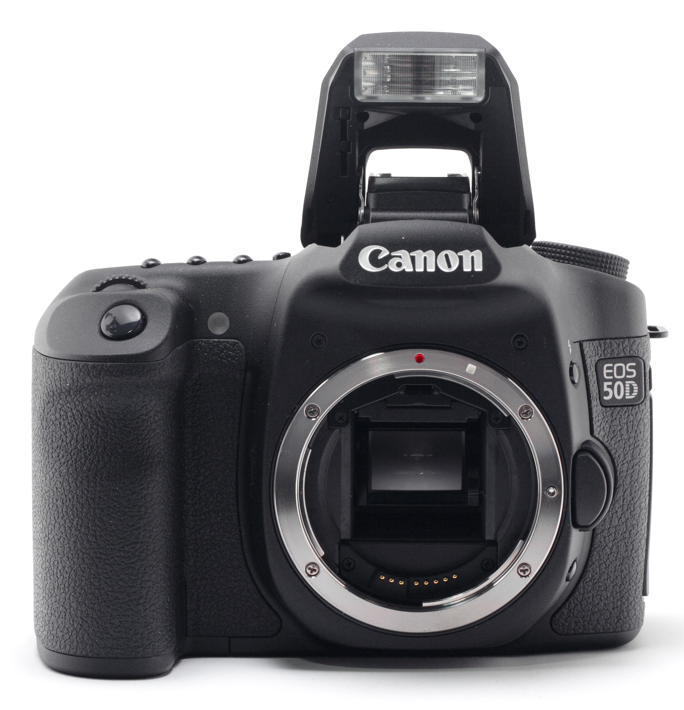 Photo of the Canon EOS 50D Digital, showing mount and pop-up flash.